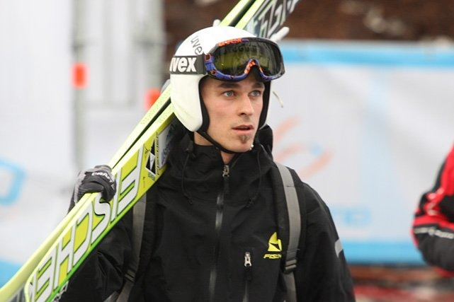 Piotr Żyła in the FIS Ski-Flying World Championships 2012